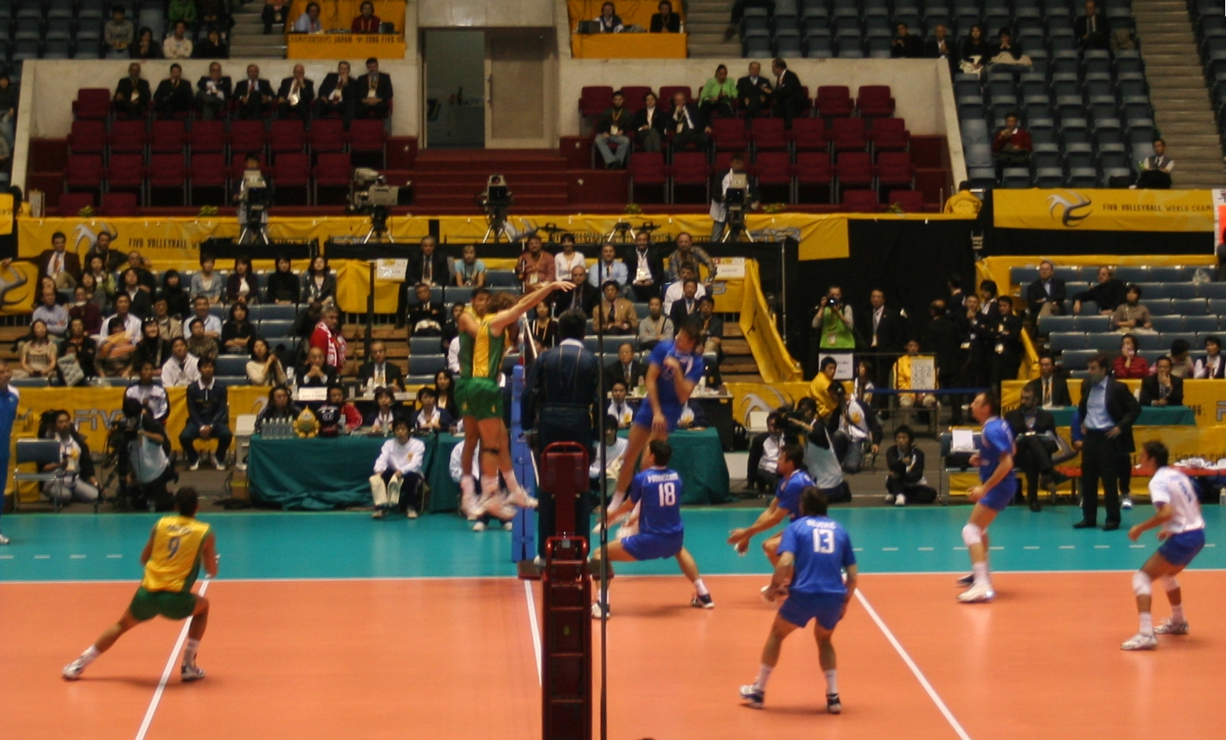 Volleyball World Cup 2006 in Japan. Scene from the semifinal of Brazil against Serbia and Montenegro